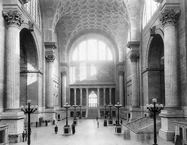 The main waiting room at Penn Station, New York City.